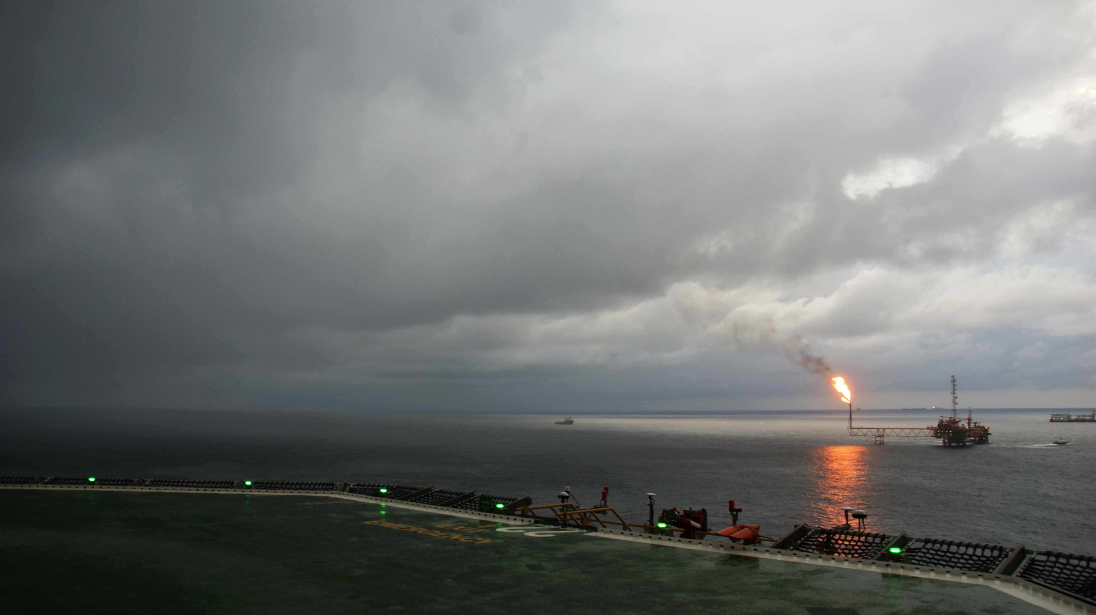 Thunderstorm approaching oil platform in Bight of Bonny. Picture taken from Saipem 7000 SSCV